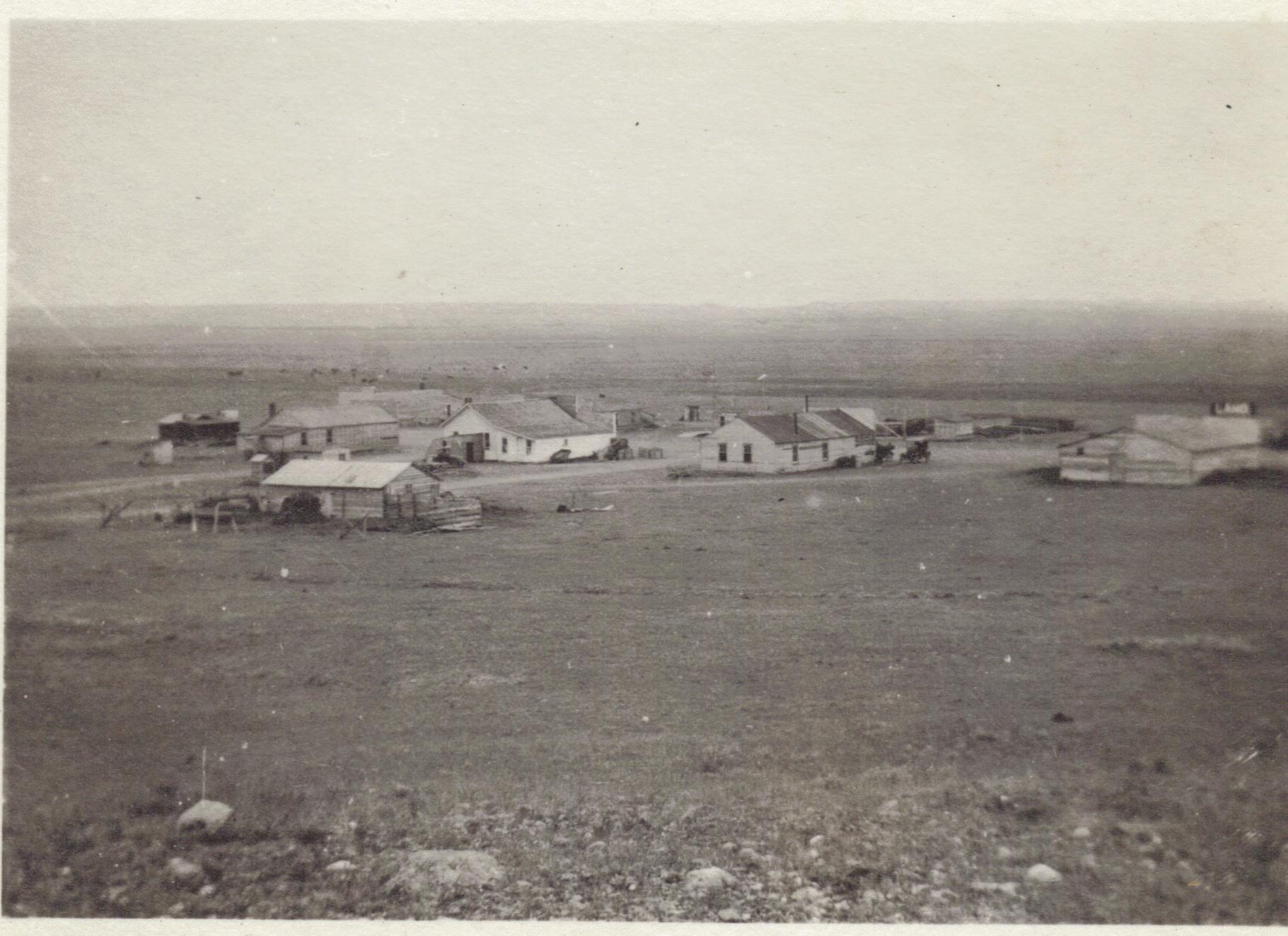 Thoney, Montana July 1919